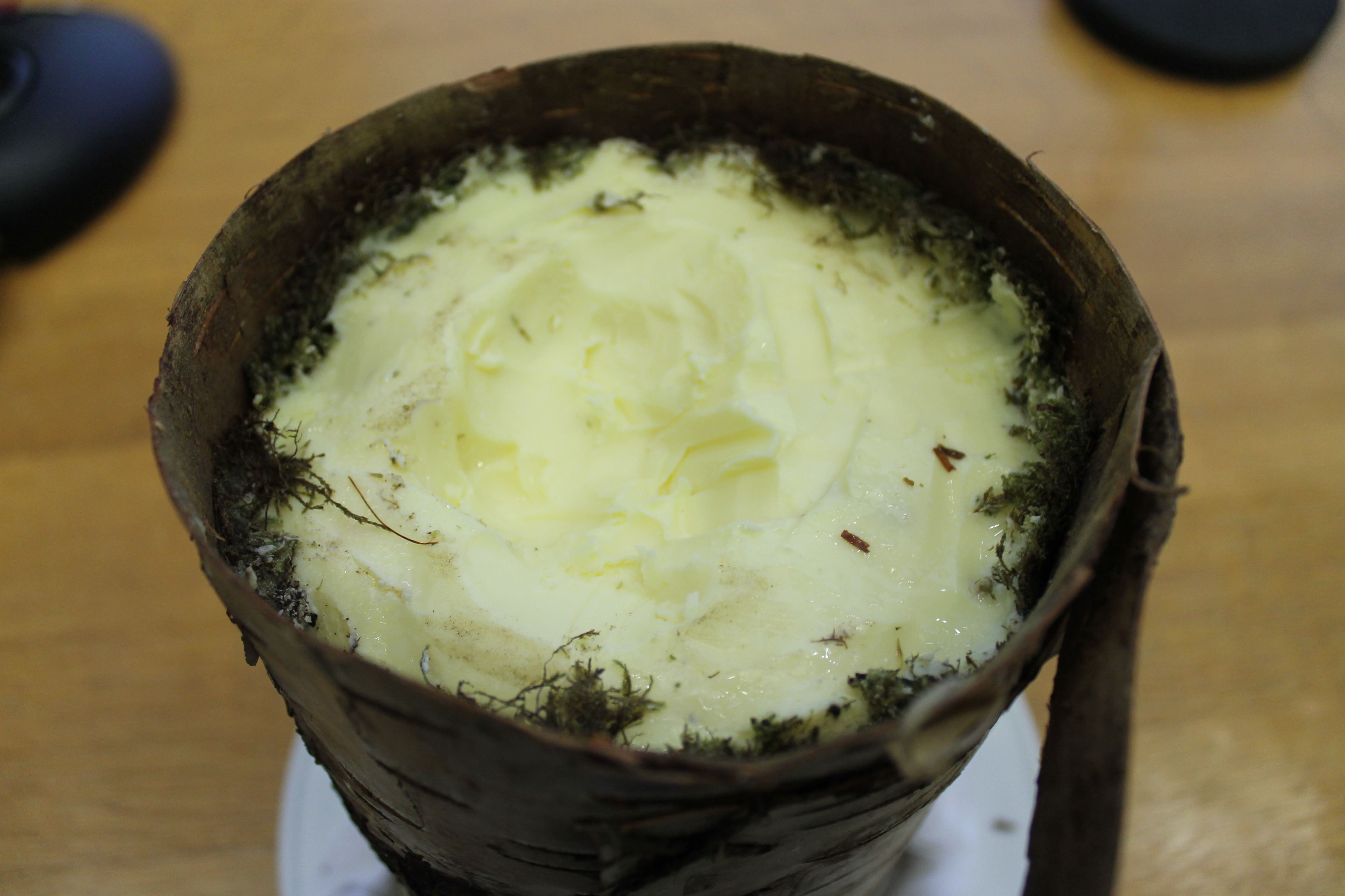 Bog butter, made by Benjamin Reade and tasted by particpants at the Oxford Symposium on Food and Cookery, 2012.